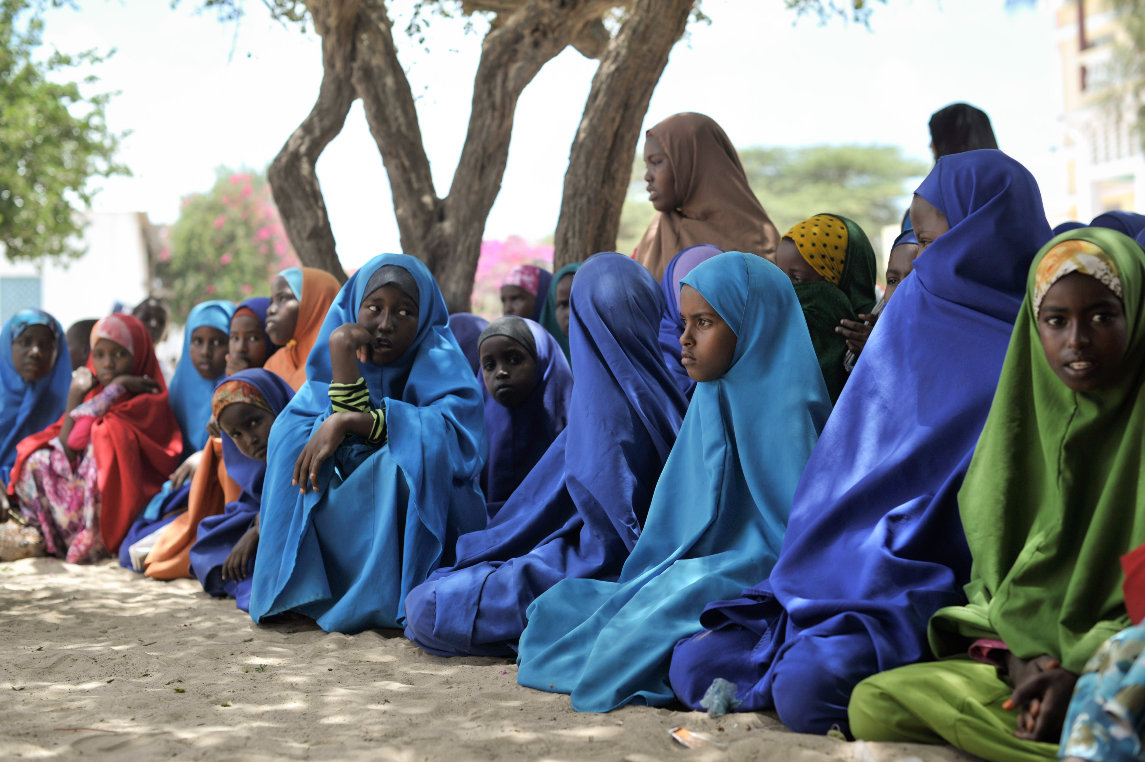 Young girls watch a football game being played outside of their school during breaktime at a center run by Dr. Hawa in the Afgoye corridor, Somalia, on September 25. Dr. Hawa, an internationally recognized humanitarian, established the Hawa Abdi Center in 1983, and has catered for tens of thousands over the years displaced by civil war in Somalia. The center now contains an IDP camp, a school, and a hospital. AU UN IST PHOTO / Tobin Jones